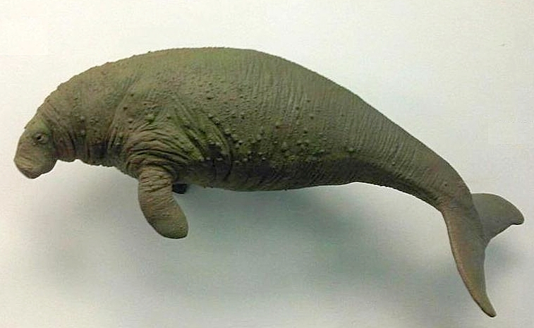 Steller's Sea Cow (Hydrodamalis gigas) model at the Natural History Museum in London, England.